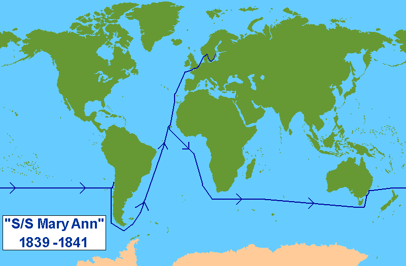 Map over circumnavigation swedish SS Mary Ann, own work composed from various mapreferences